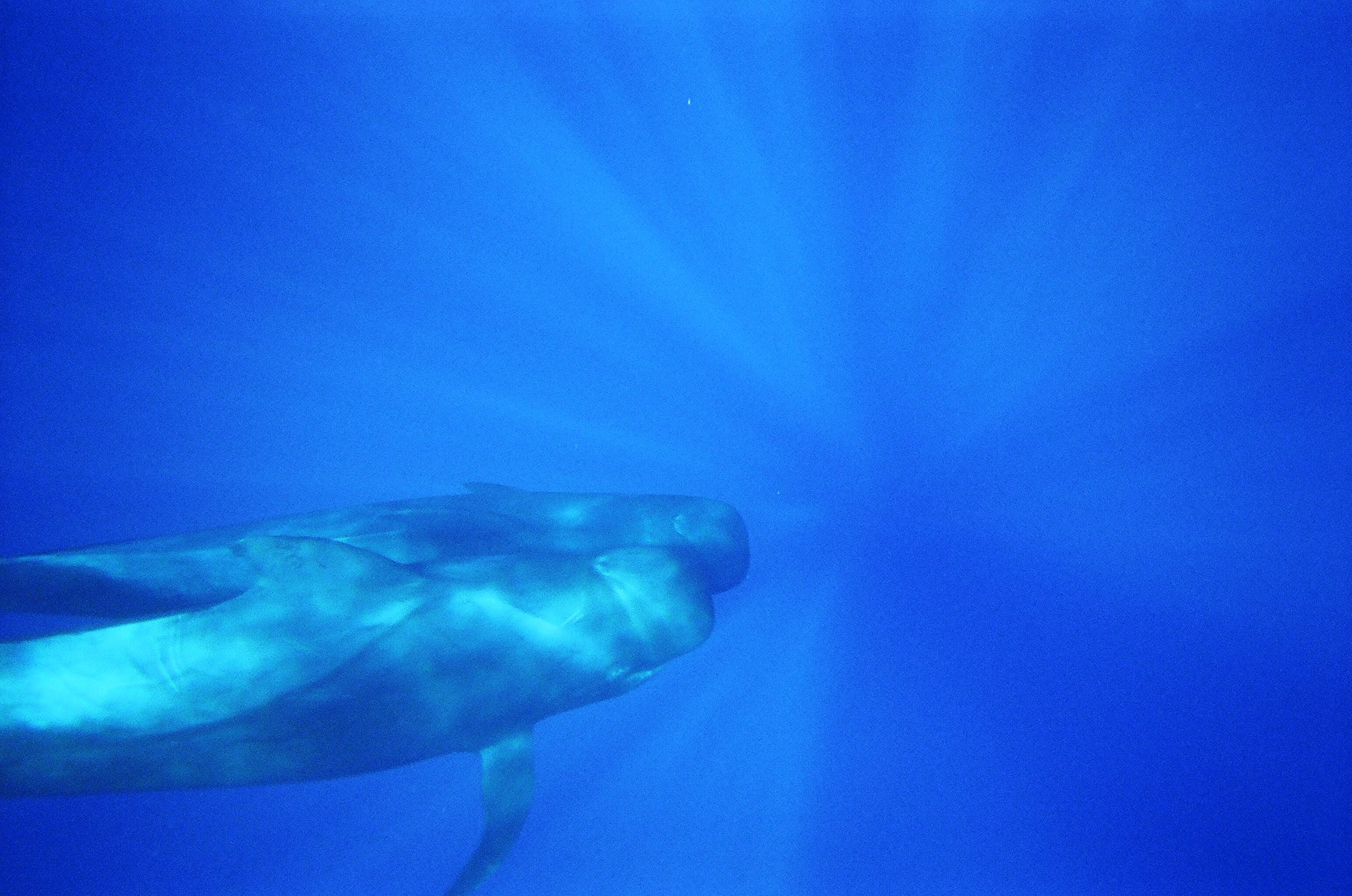 Picture of globicephala melas (pilot whale) living near Canary Islands